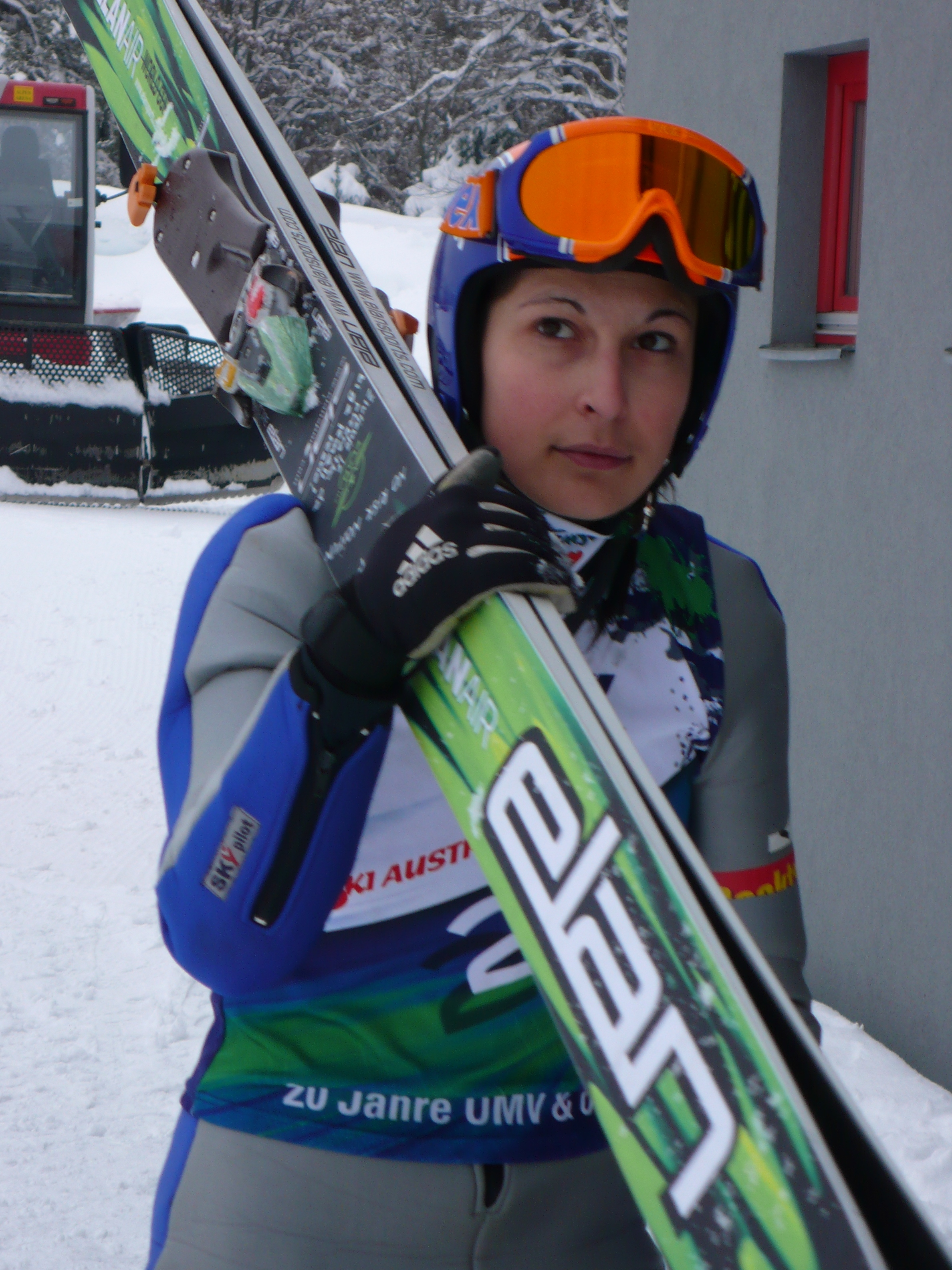 Anja Tepeš, at the Ski jumping Continental Cup in Villach on the 2010-02-12.